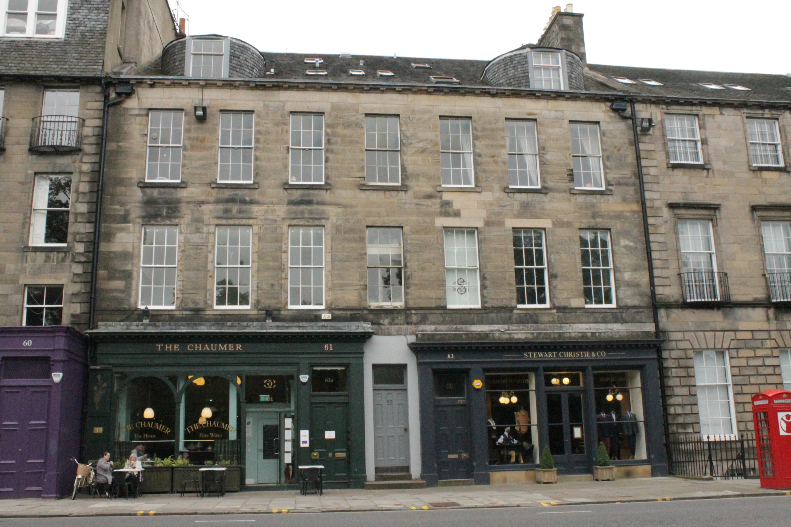 61, 62, 63 Queen Street, Edinburgh